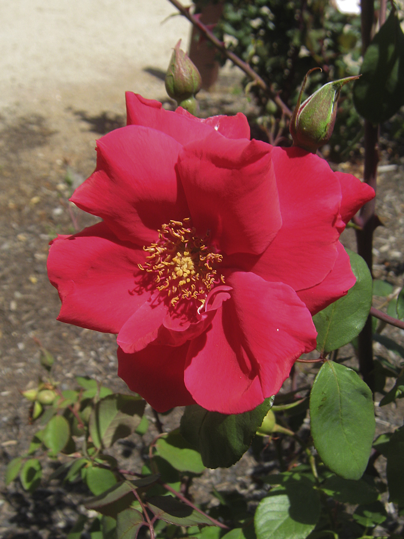 Rose 'Bishop's Lodge Linton Boy' found in Hay NSW; thought to be 'Red Letter Day' Dickson 1914; Photographed at Nieuwesteeg Heritage Rose Garden, Maddingley Park, Bacchus Marsh, VIctoria